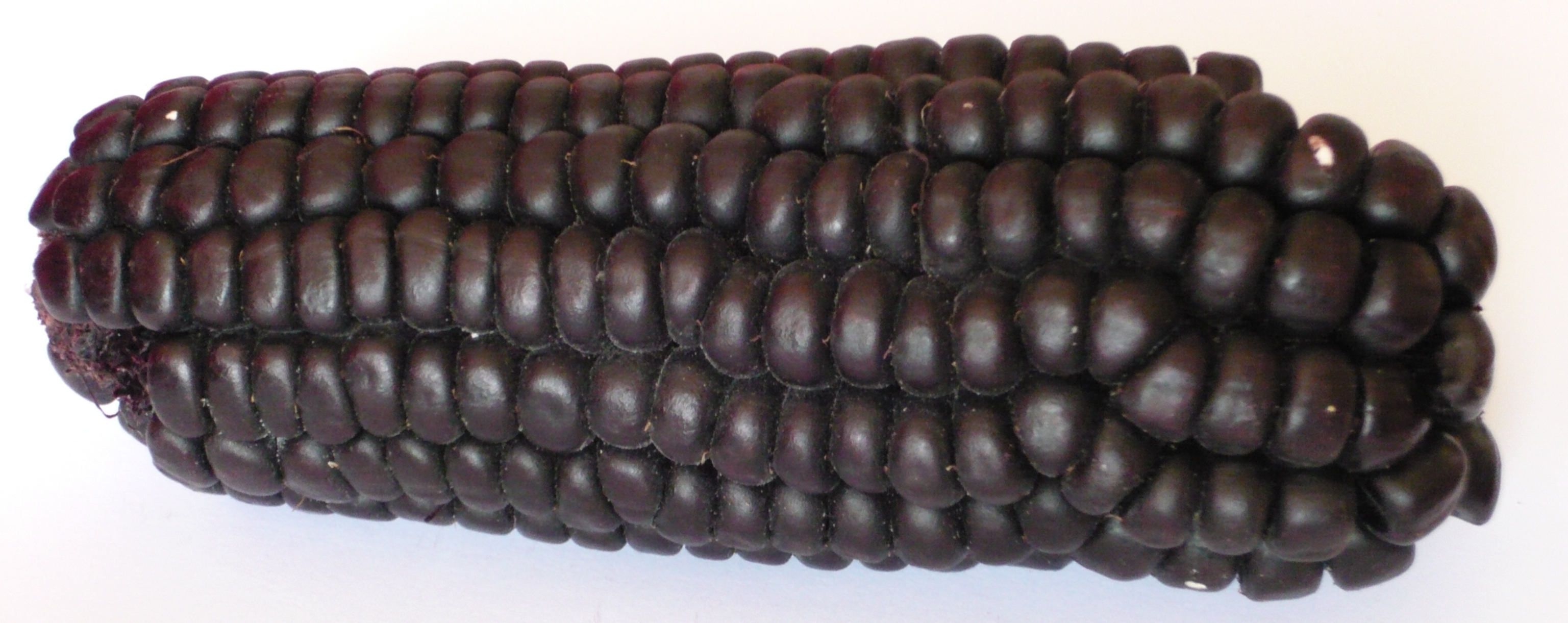 Black corn